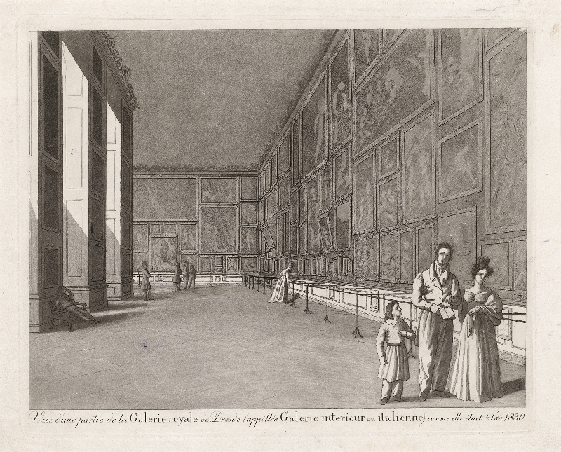 Interior view of the Royal Painting Collection, in the former Stable Building of the Electors of Saxony, etching, aquatint, 1830